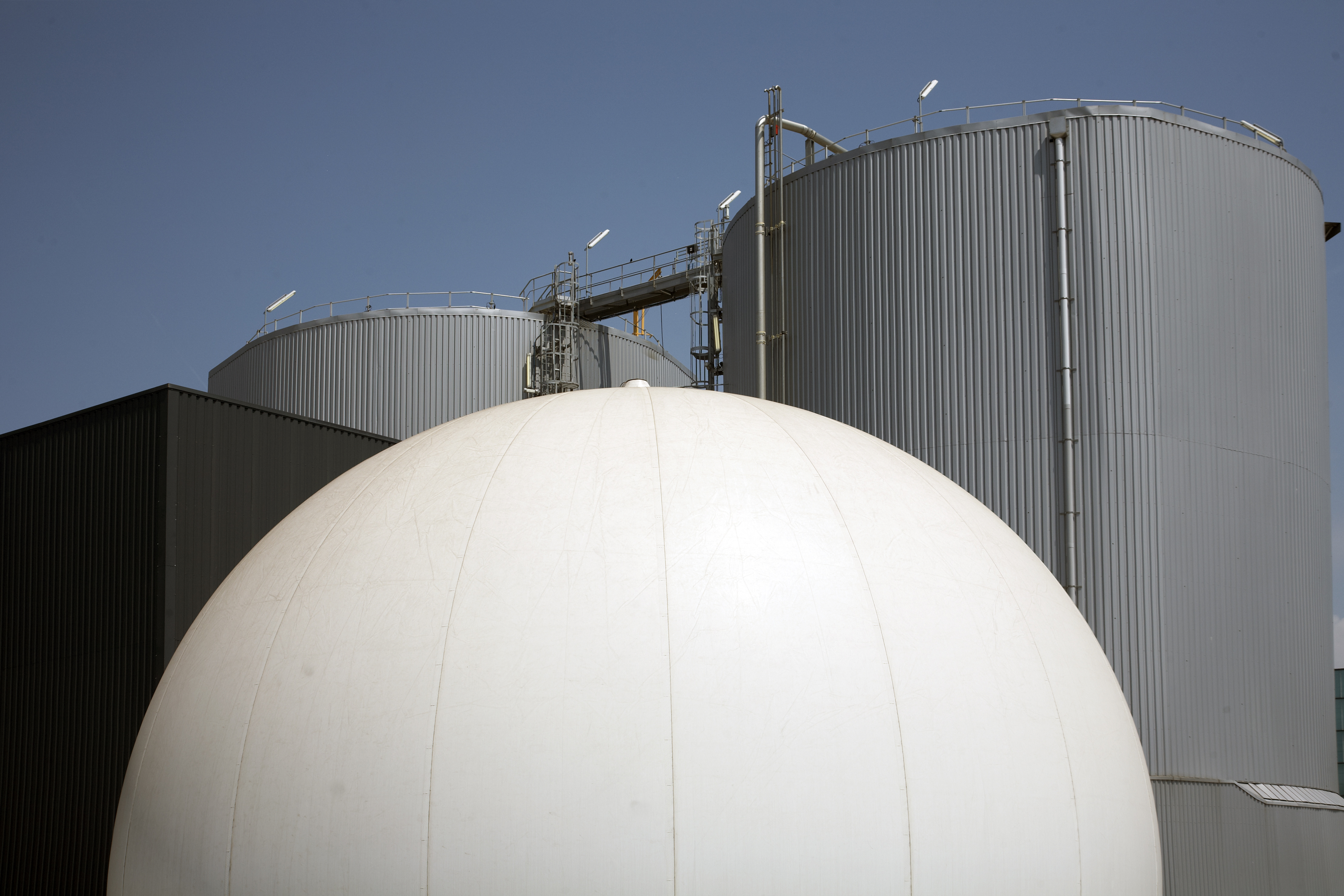 EveRé - Unité de Valorisation Organique